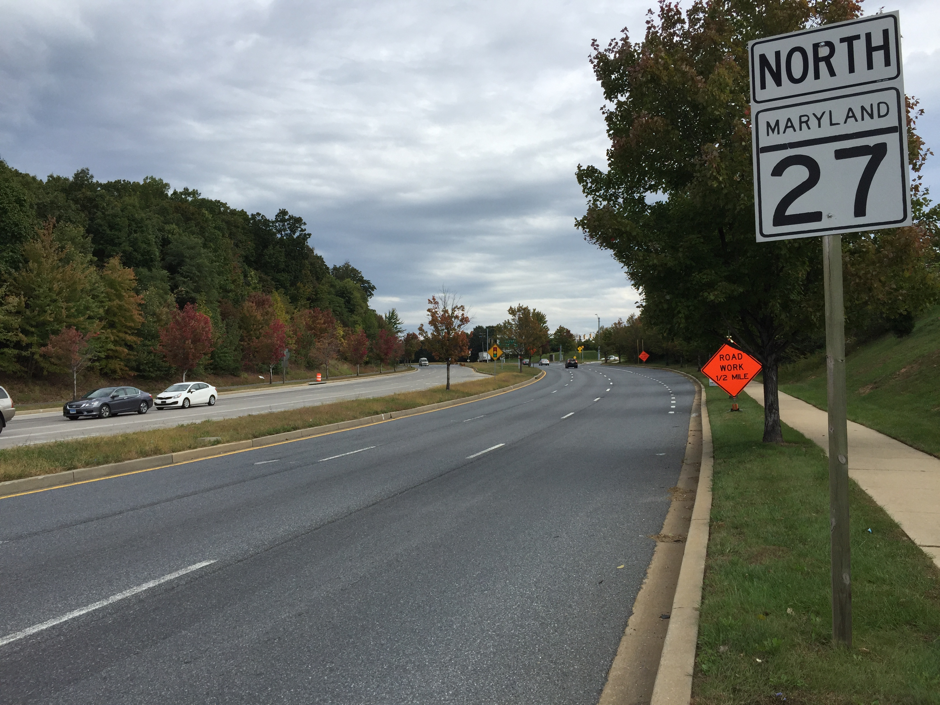 View north along Maryland State Route 27 (Ridge Road) at Maryland State Route 355 (Frederick Road) in Germantown, Montgomery County, Maryland